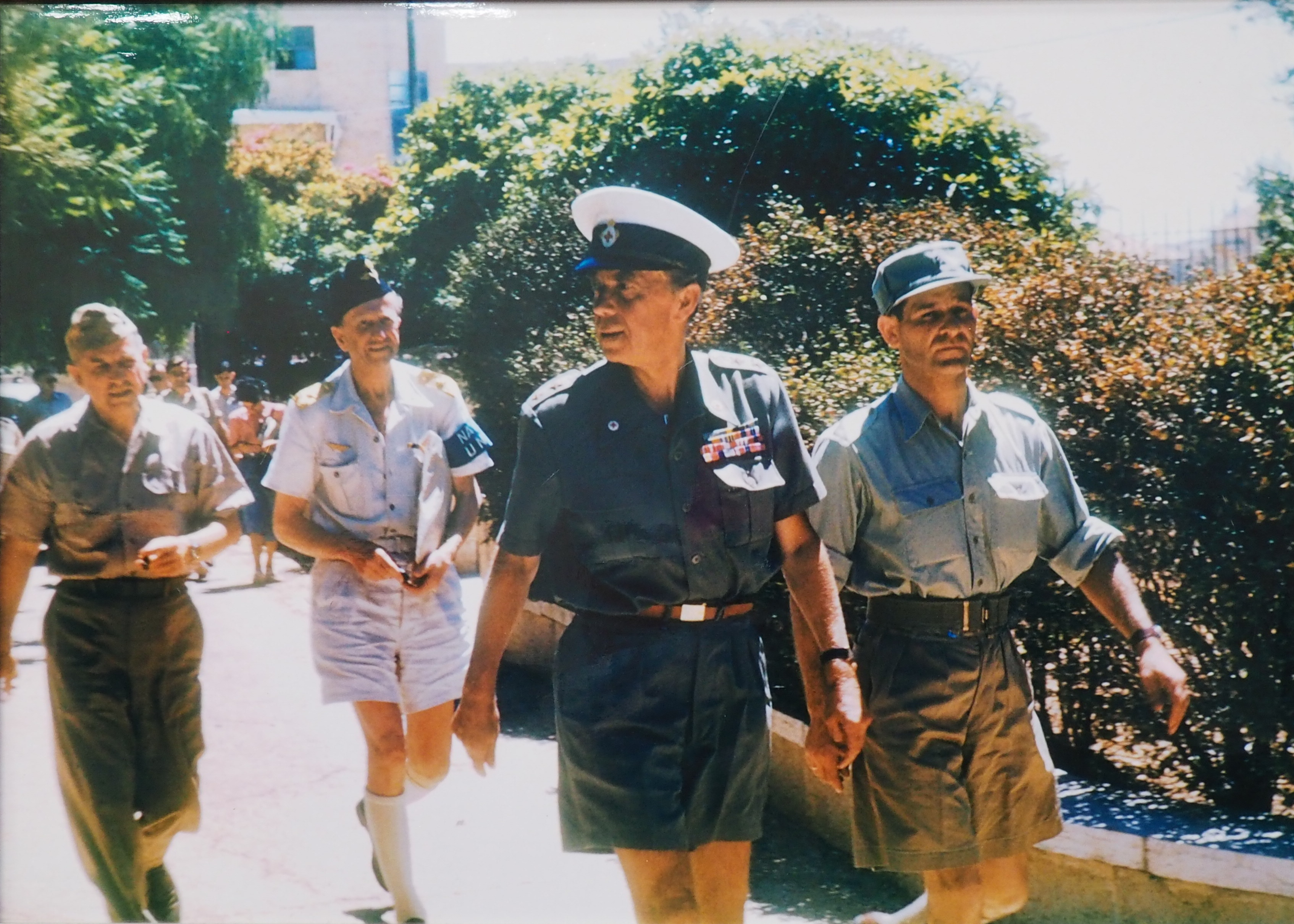 historical photo of Folke Bernadotte GLAM TLV 2018 Israeli Archives